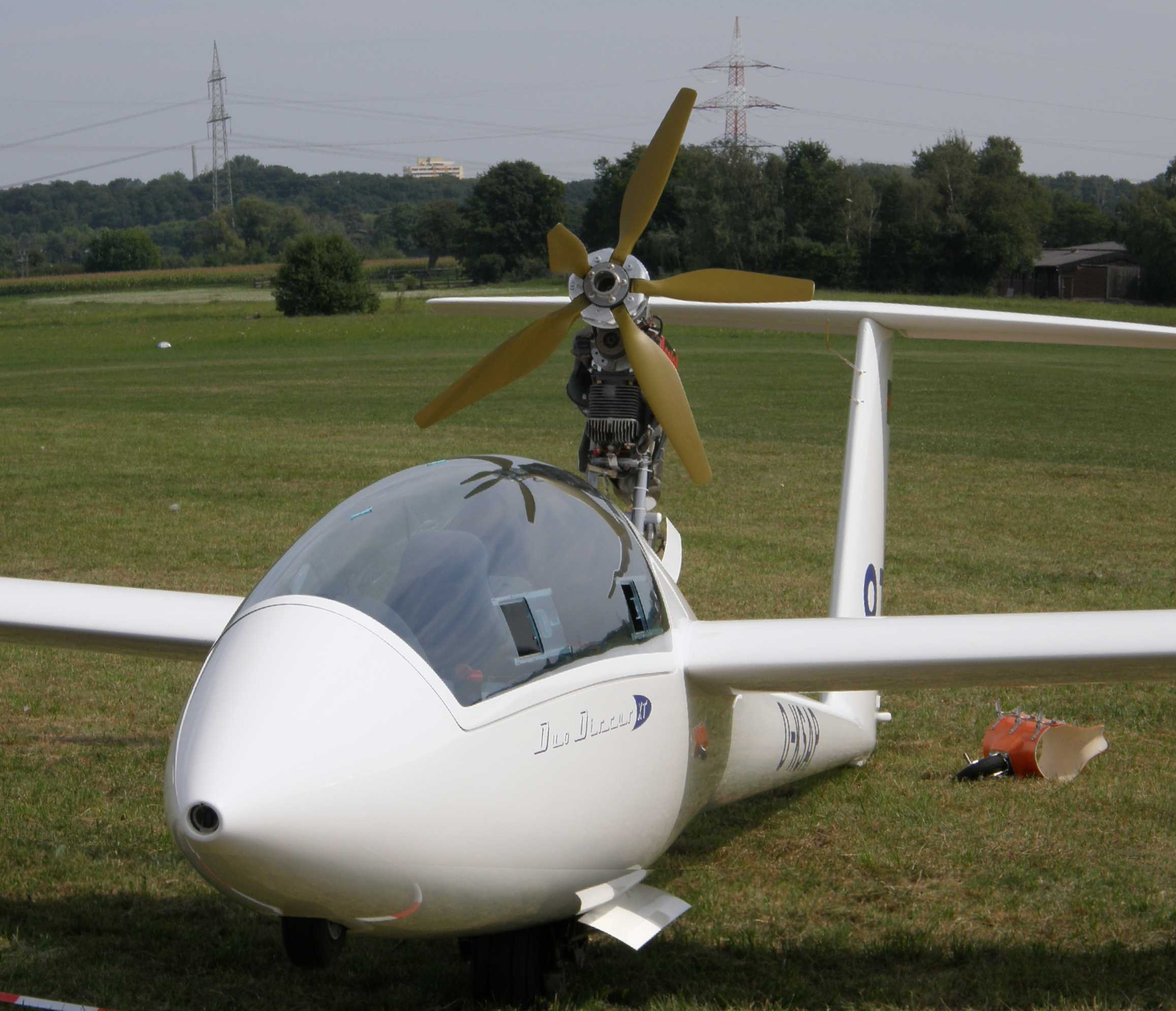 Glider with engine and 5-prop